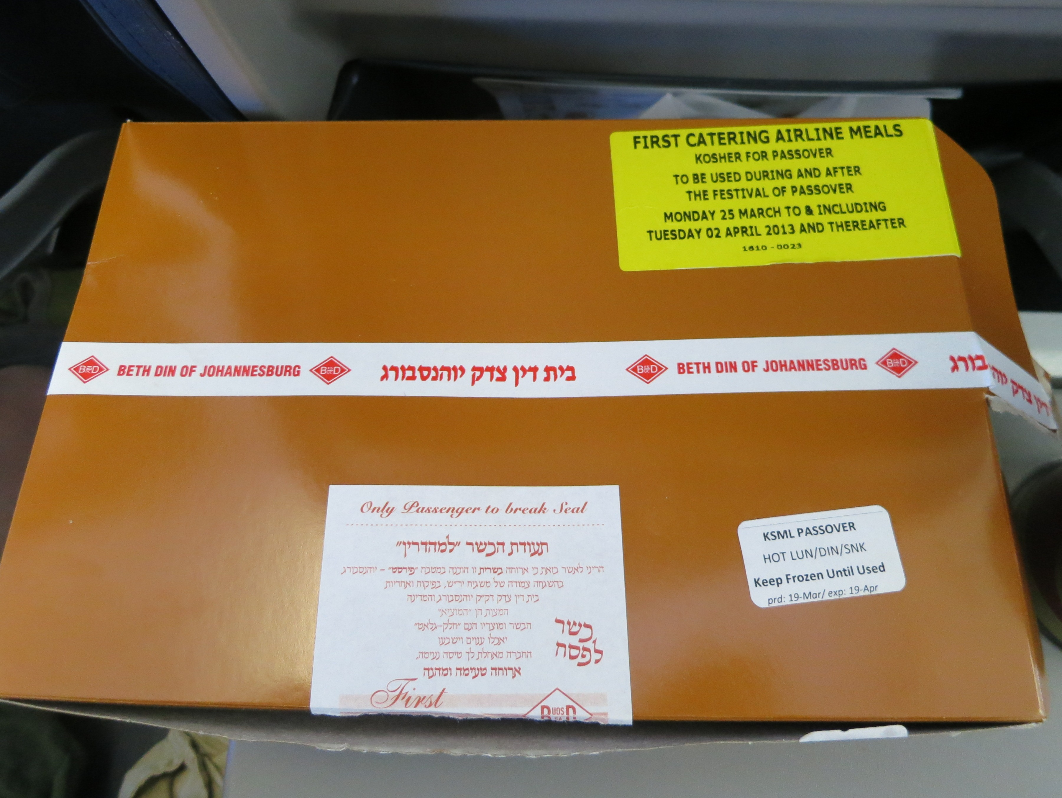 Kosher food approved by the Beth din of Johannesburg, served as airplane meal